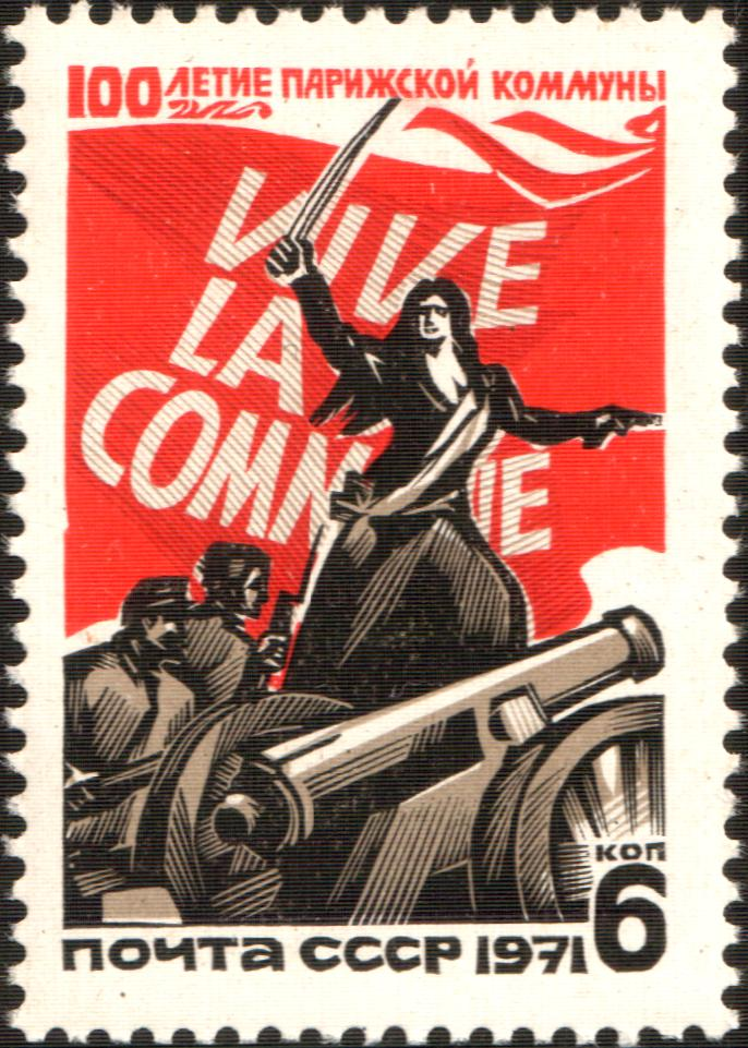 USSR stampː Fighting at the Barricades. Seriesː Centenary of Paris Commune (1871.03.18-1871.05.28)